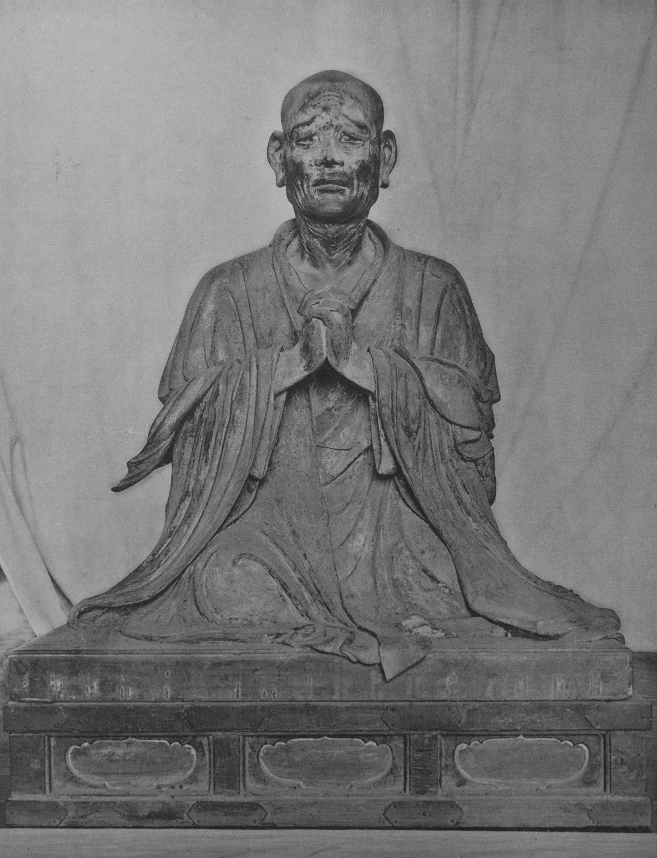 Kofukuji, Nara, Japan. Sculpture by Kōkei, 1188-1189, wood+color.